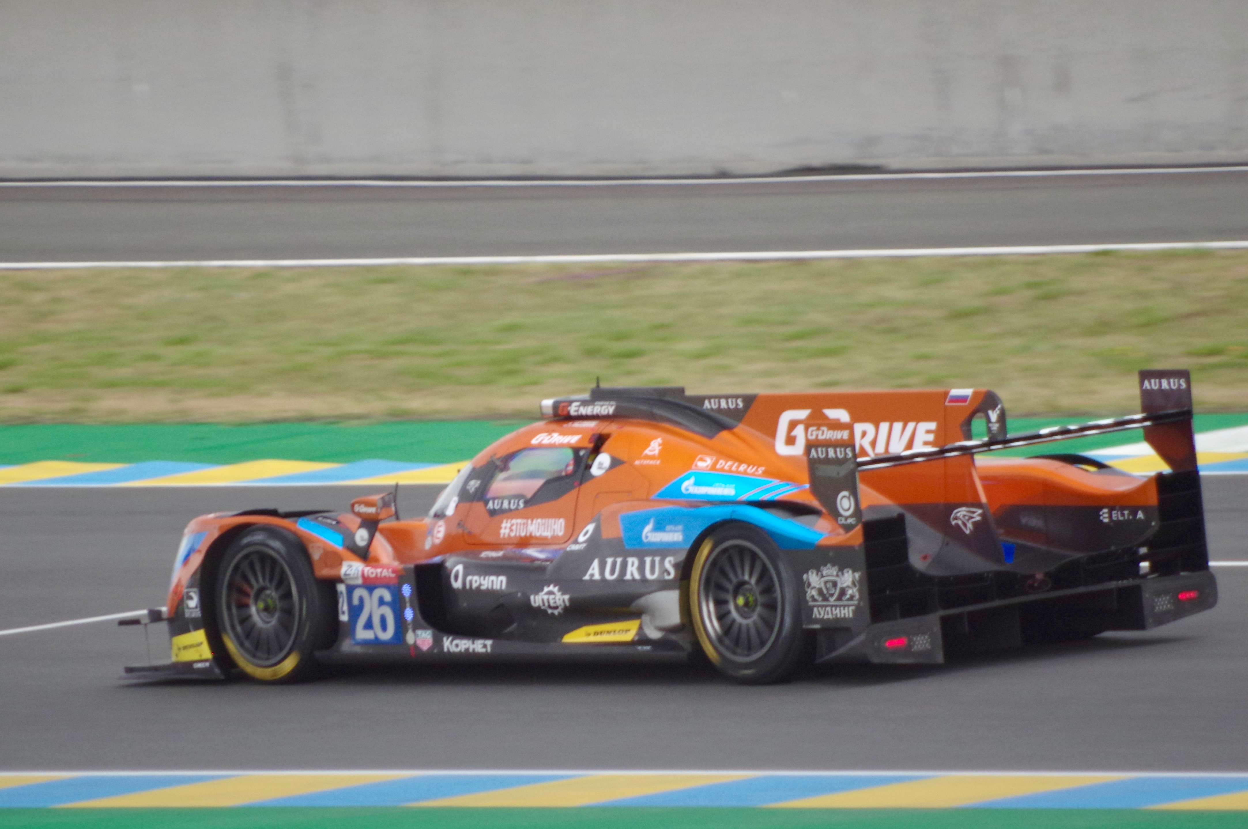 G-Drive Racing's Aurus 01-Gibson n°26 driven by Roman Rusinov, Job van Uitert and Jean-Éric Vergne at the 2019 24 Hours of Le Mans